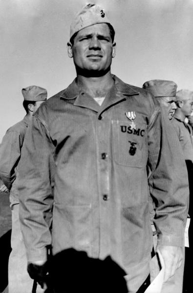 1st Lieutenant Howard W. Johnson, I Company, 3rd Battalion, 23rd Marines, 4th Marine Division, receives the Silver Star for his actions in the Battle of Saipan in June 1944. He was killed in action at Iwo Jima on February 19, 1945.